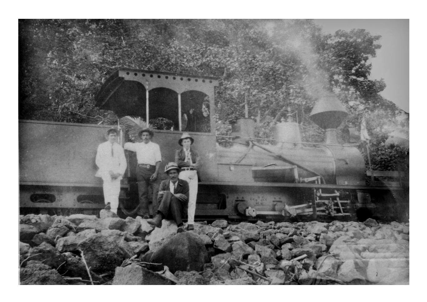 Hudswell Clark steam locomotive with a variable orifice blastpipe, possibly Lautoka 17, Rarawai 13 or 14 or Labasa 1 in Fiji